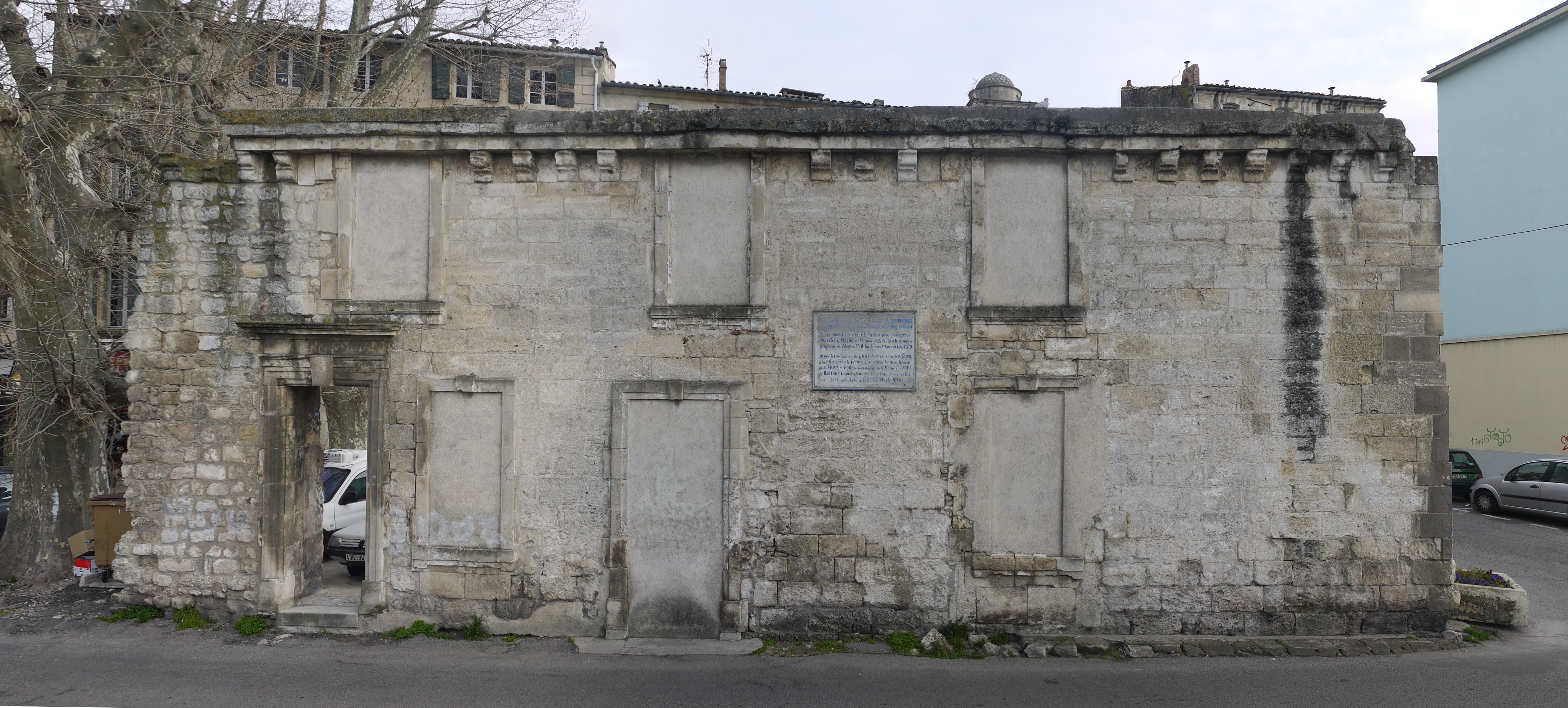 The remnants of the forfication walls of Arles (Bouches-du-Rhône, France).